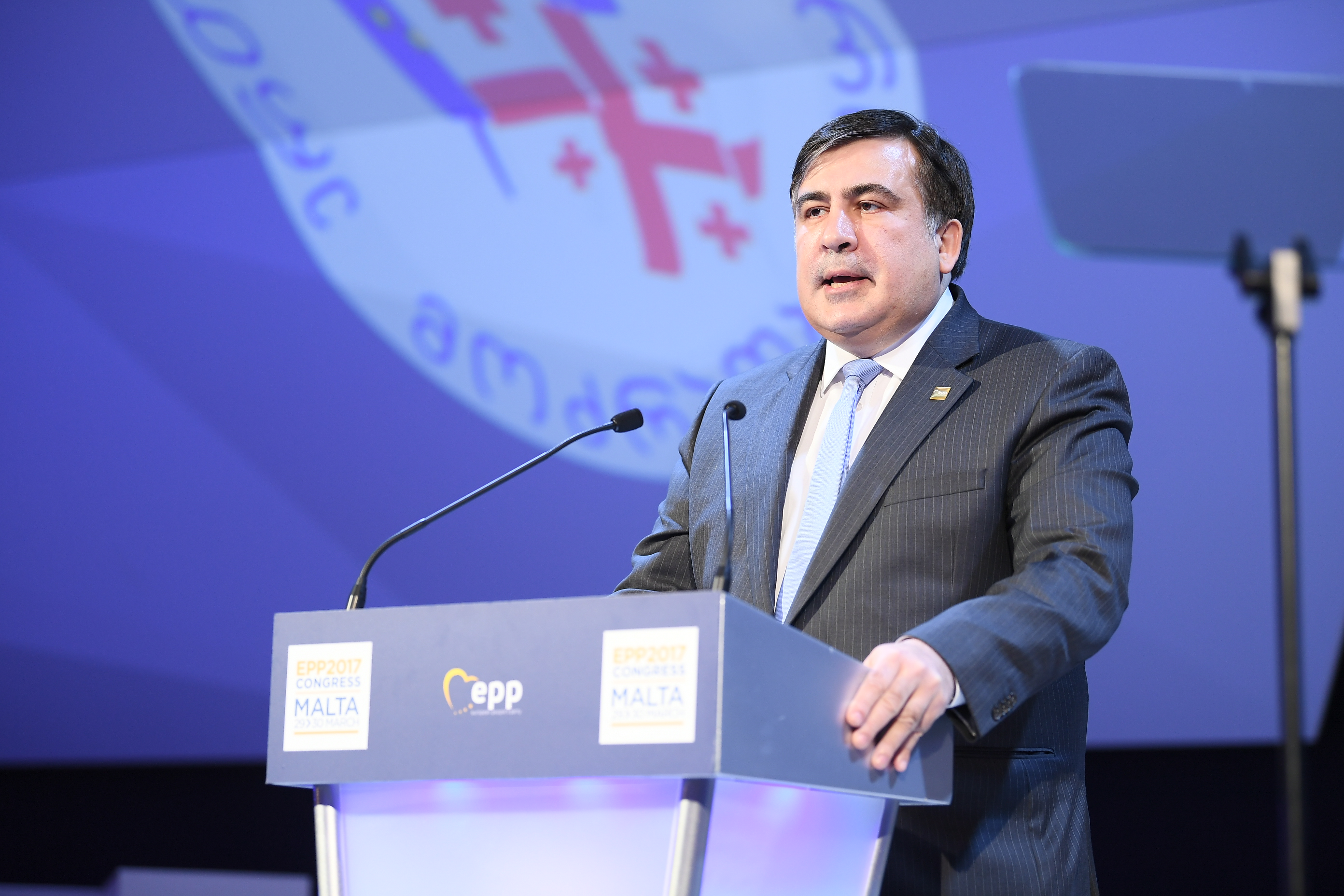 EPP Malta Congress 2017 ; 29 March